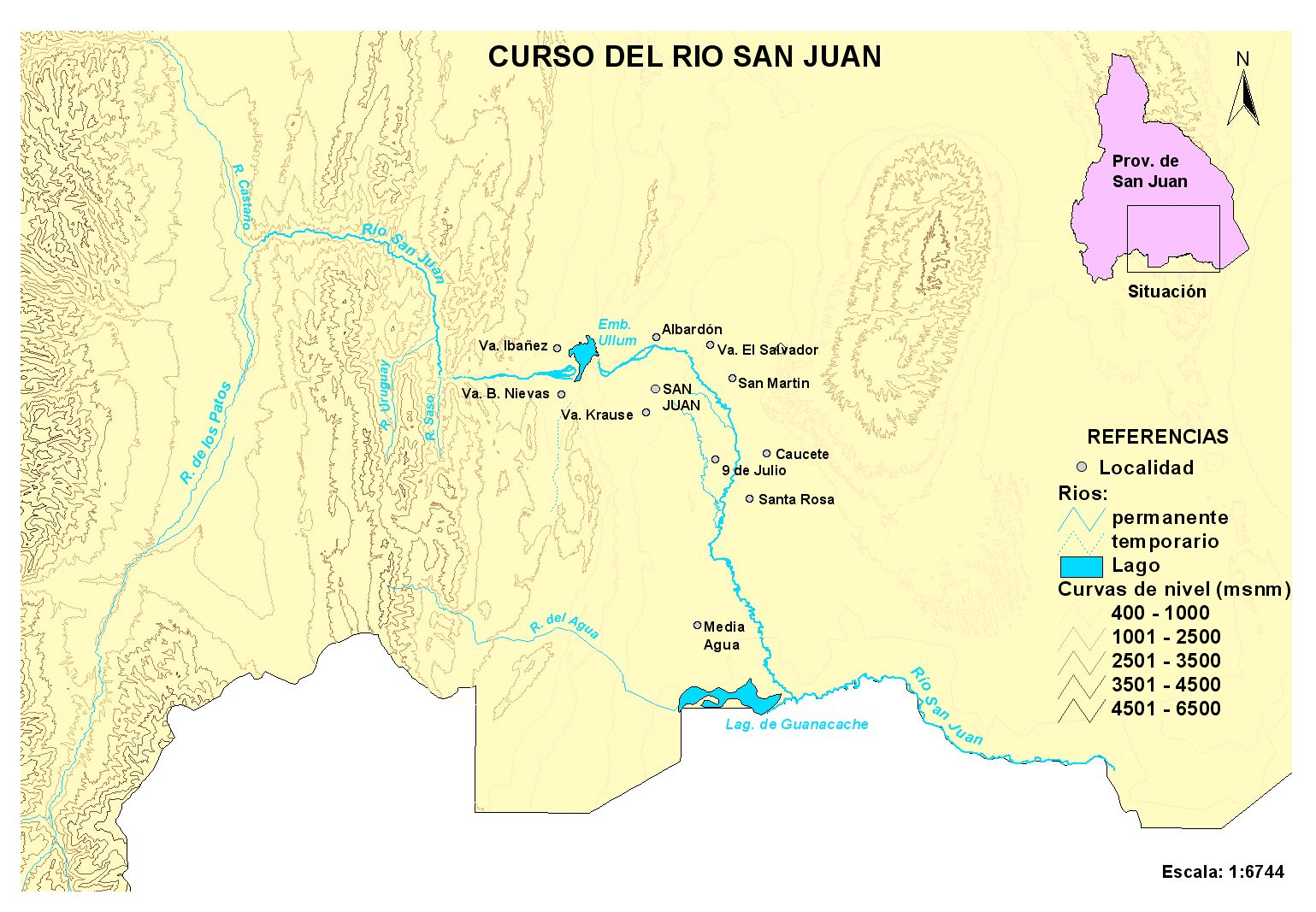 Maps of San Juan River, in Argentina